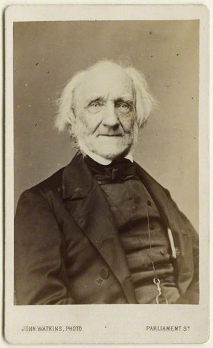 Portrait of John Pye (1782–1874), English landscape engraver.